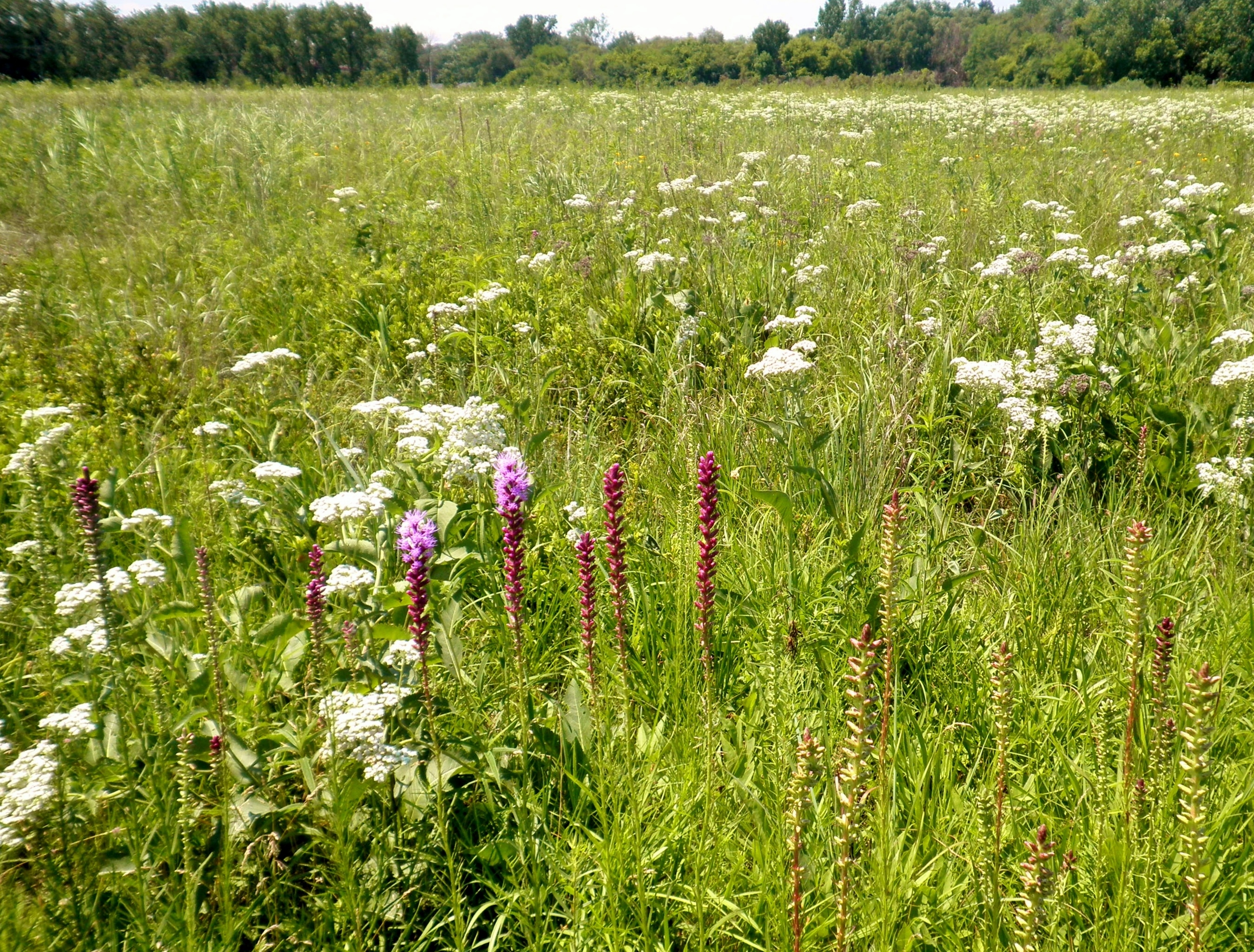 Gensburg-Markham Prairie, Illinois, a National Natural Landmark